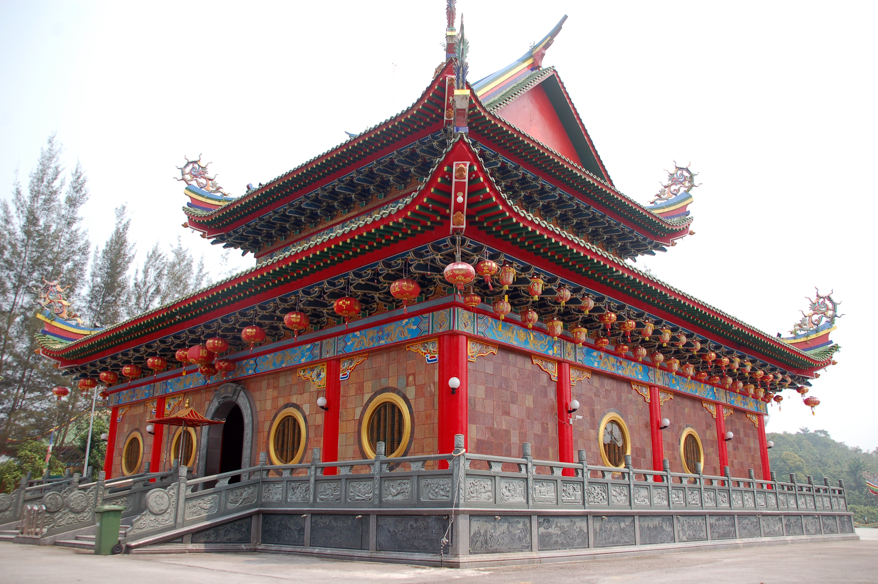 Yu Lung San Tien En Si (Jade Dragon Temple)